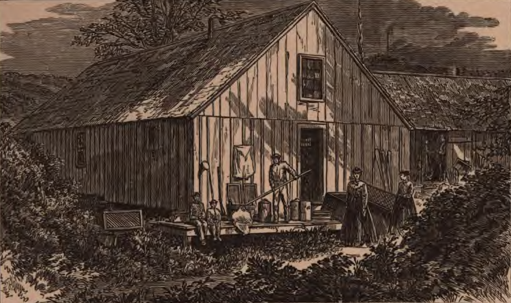 View of Hatching House at Cold Spring Trout Ponds, Charlestown, N.H.